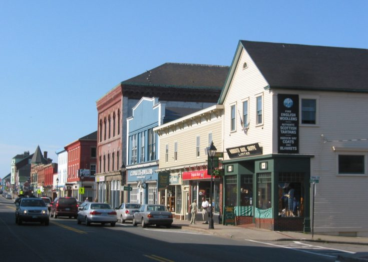 A photo of Yarmouth, Nova Scotia during tourist season